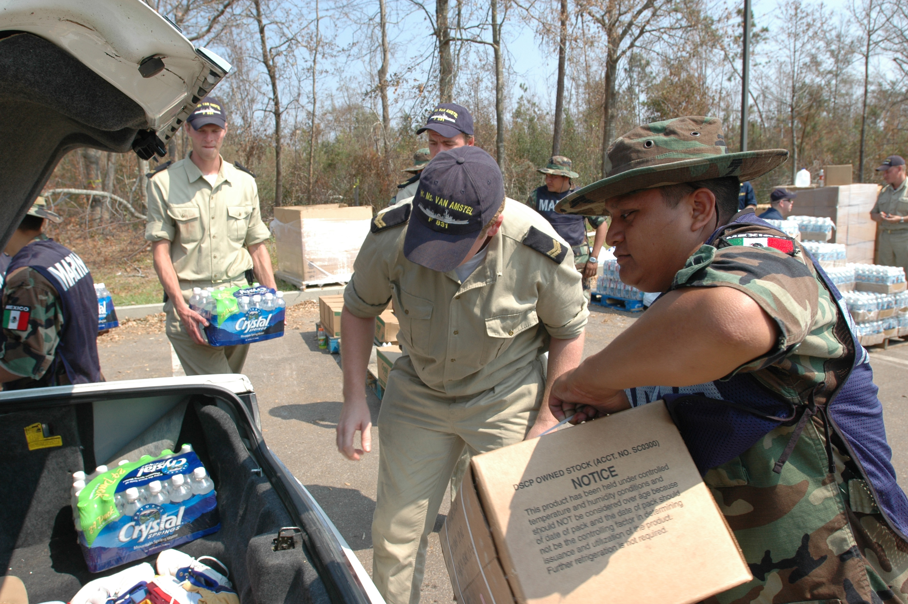 D'Iberville, Miss., September 12, 2005 -- Sailors from the Dutch and Mexican navies distribute water and Meals, Ready to Eat (MREs) to residents of D'Iberville, Miss. Hurricane Katrina caused extensive shortages in coastal Mississippi. FEMA/Mark Wolfe